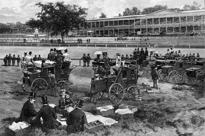 Jerome Park Racetrack, New York City. "Coaches at Jerome Park on a race day." Annual spring meeting of the American Jockey Club at the Jerome Park Racetrack. Wood print.